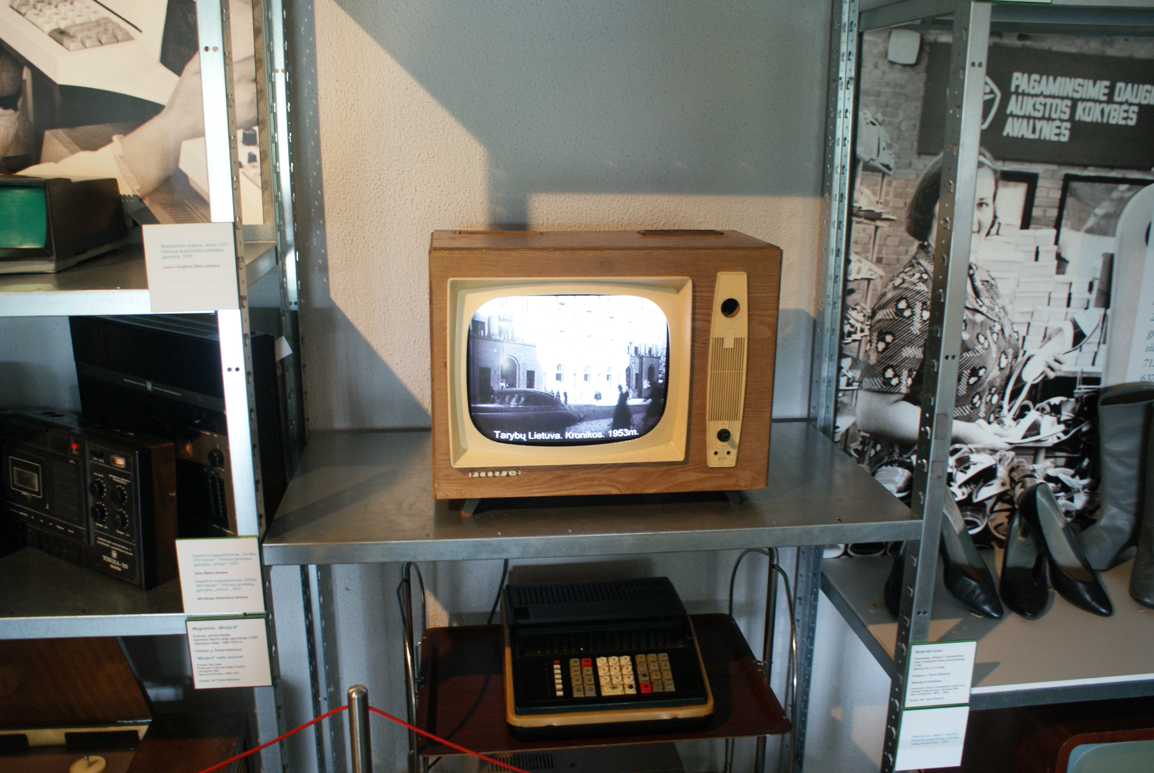 Vilnius Energy and Technology Museum